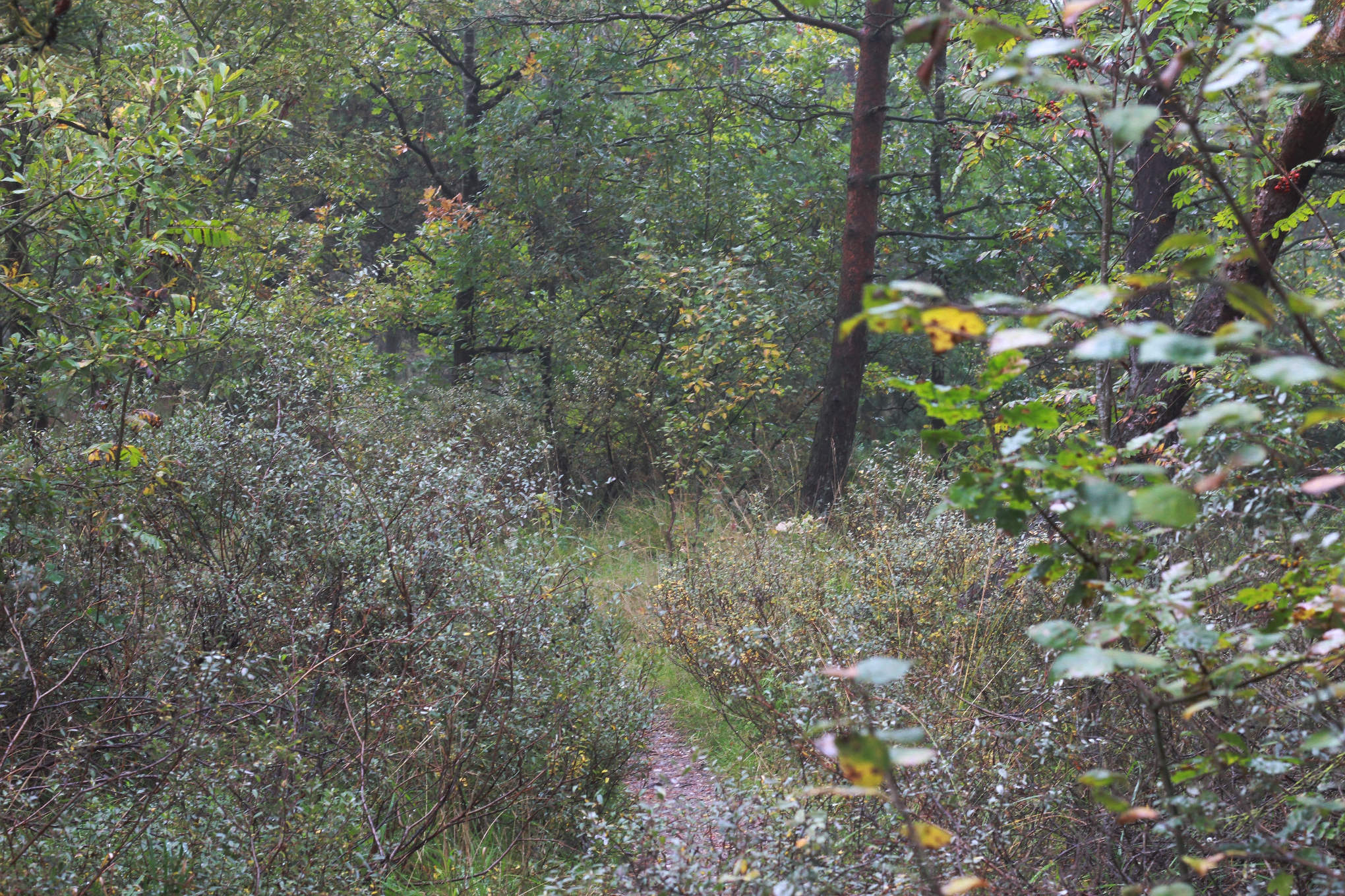 Forest on the island of Rømø, near western Jutland, dominated by Scots pine (Pinus sylvestris). The soil is sand of old dunes.